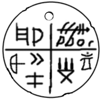 Neolithic clay amulet (retouched), part of the Tărtăria tablets set, dated to 5500-5300 BC and associated with the Turdaş-Vinča culture. The Vinča symbols on it predate the proto-Sumerian pictographic script. Discovered in 1961 at Tărtăria, Alba County, Romania by the archaeologist Nicolae Vlassa. Drawing by Nikola Smolenski, 2003.